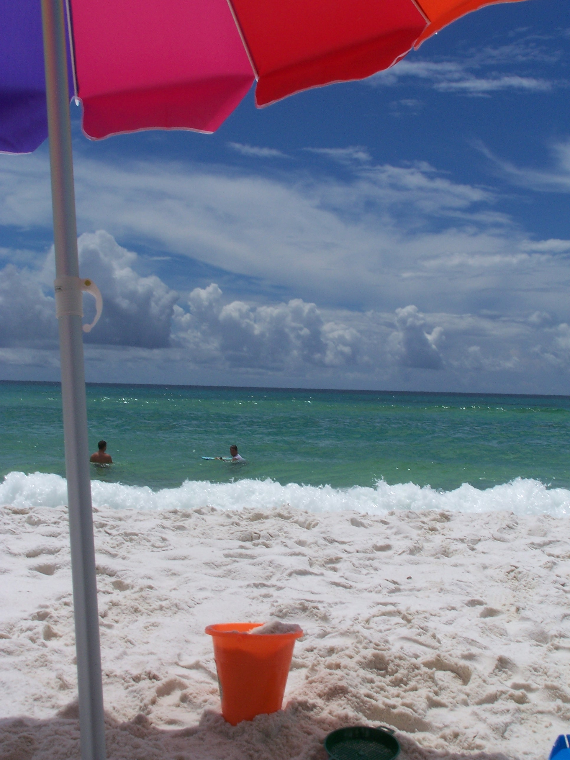 Beach at Destin, Florida: sand, ocean, sky, clouds